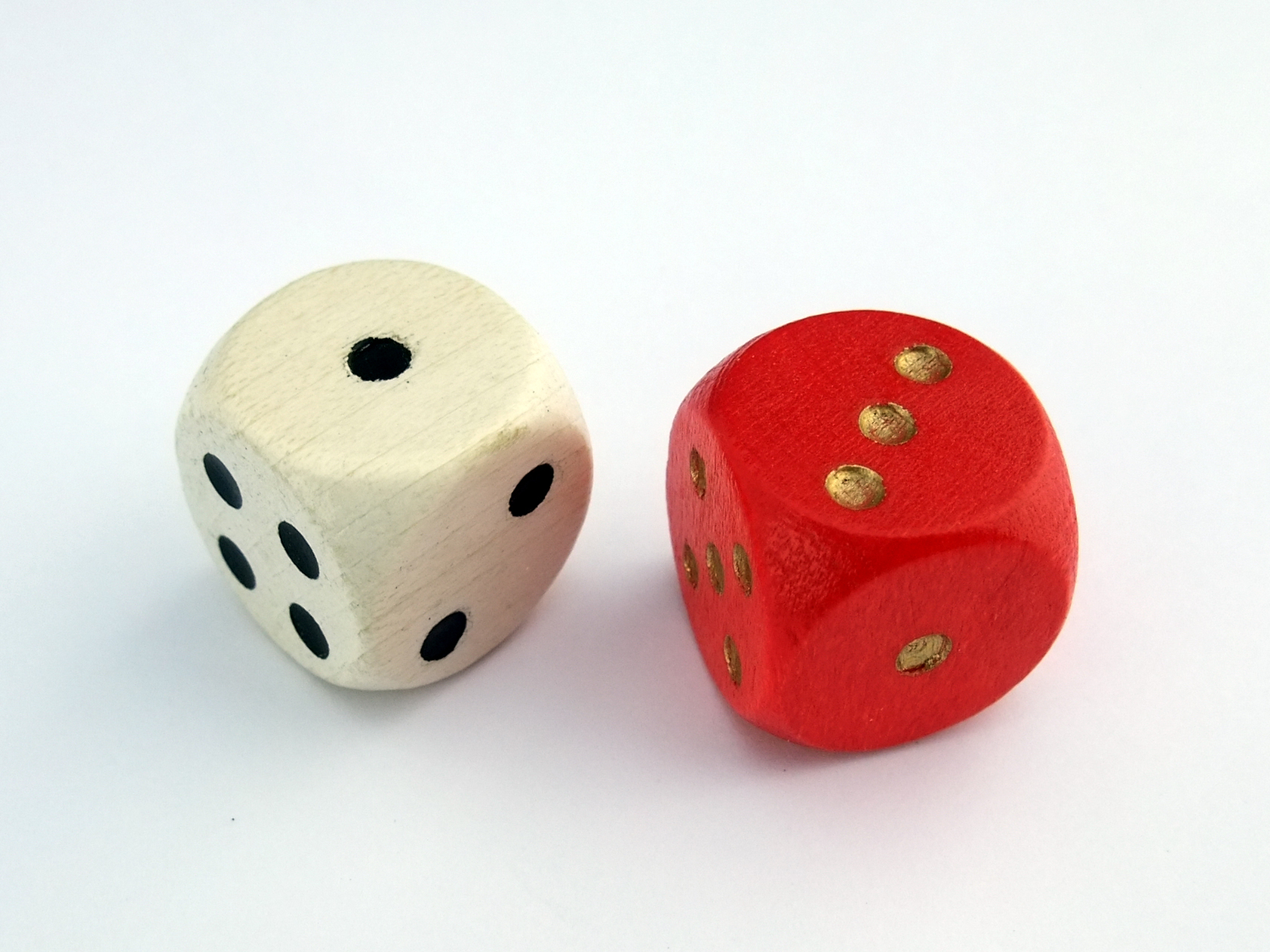 Dice